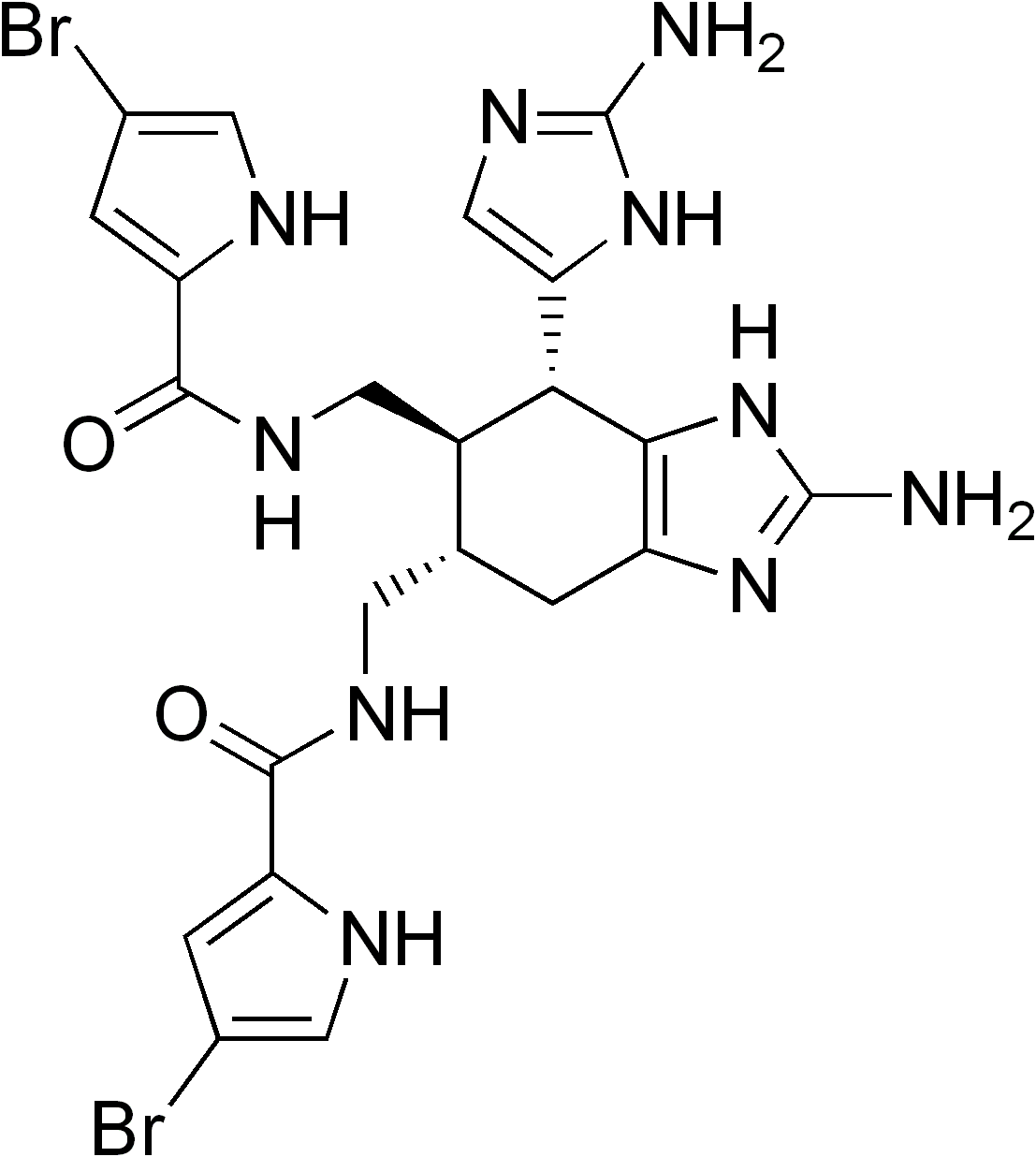 chemical structure of ageliferin